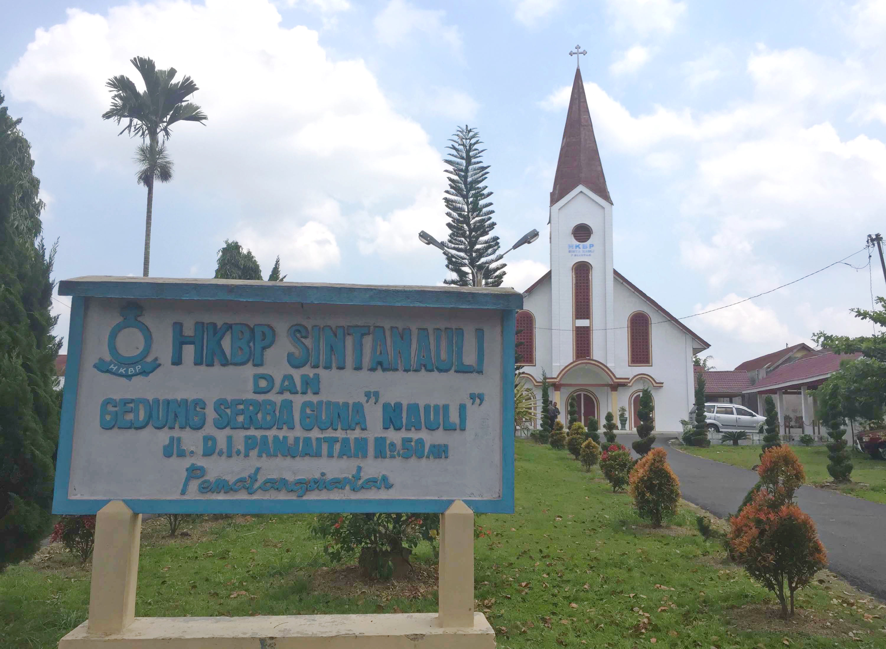 HKBP Sinta Nauli, Church in Siantar Marimbun, Pematangsiantar